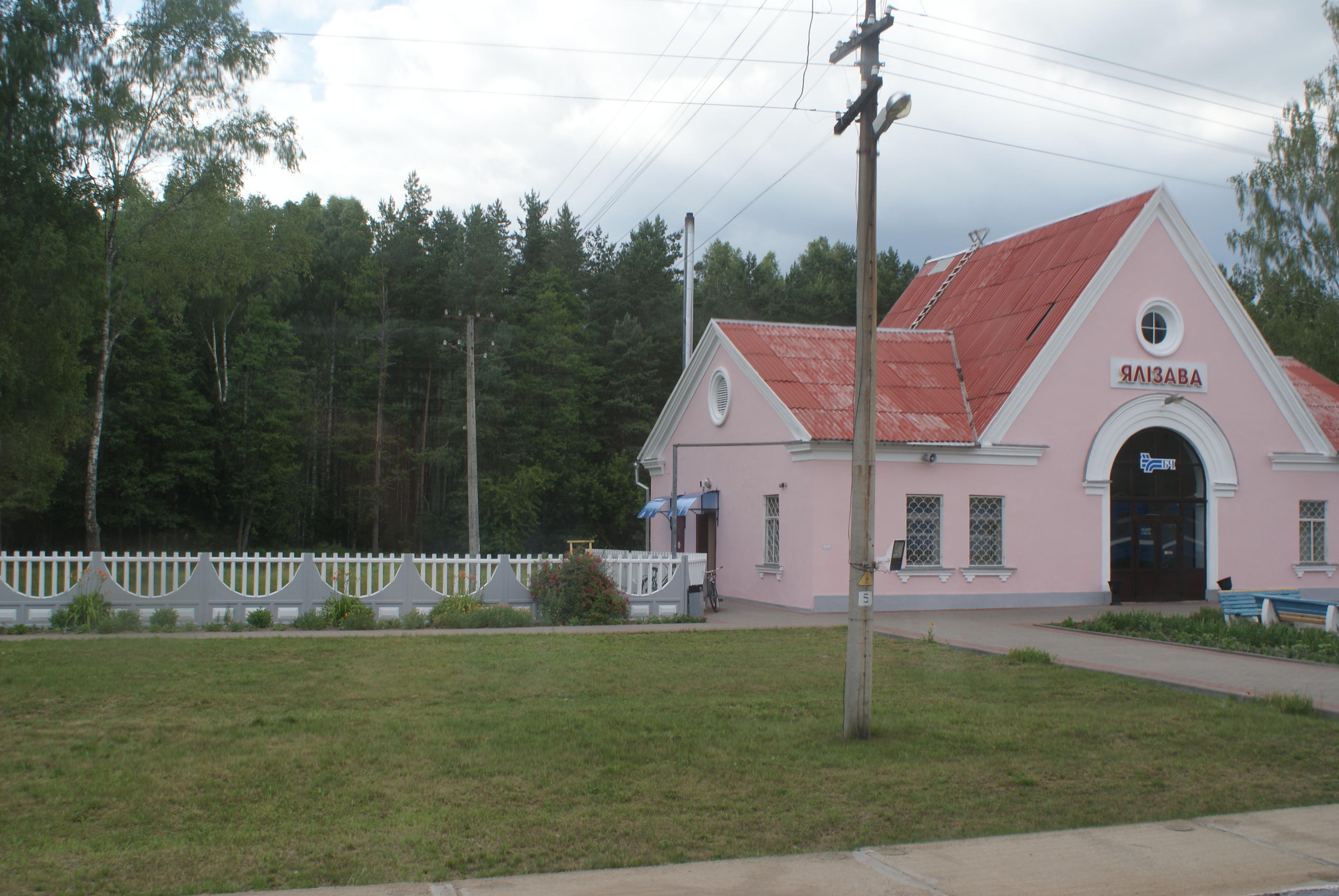 Elizovo